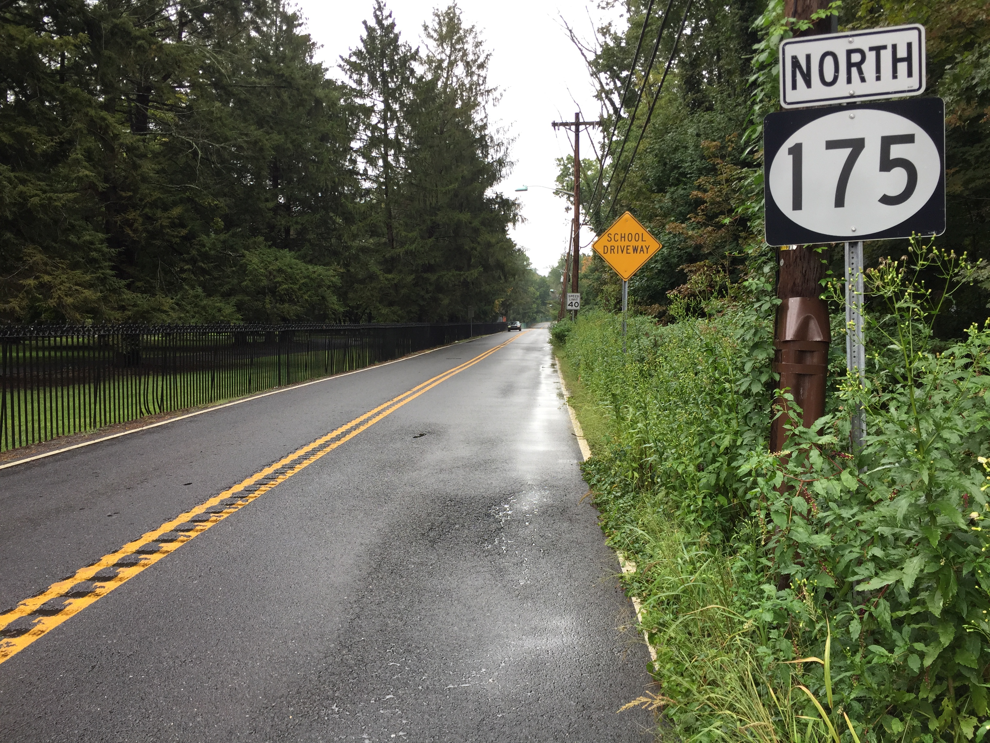 View north along New Jersey State Route 175 (West Upper Ferry Road) at New Jersey State Route 29 (Daniel Bray Highway) in Ewing Township, Mercer County, New Jersey